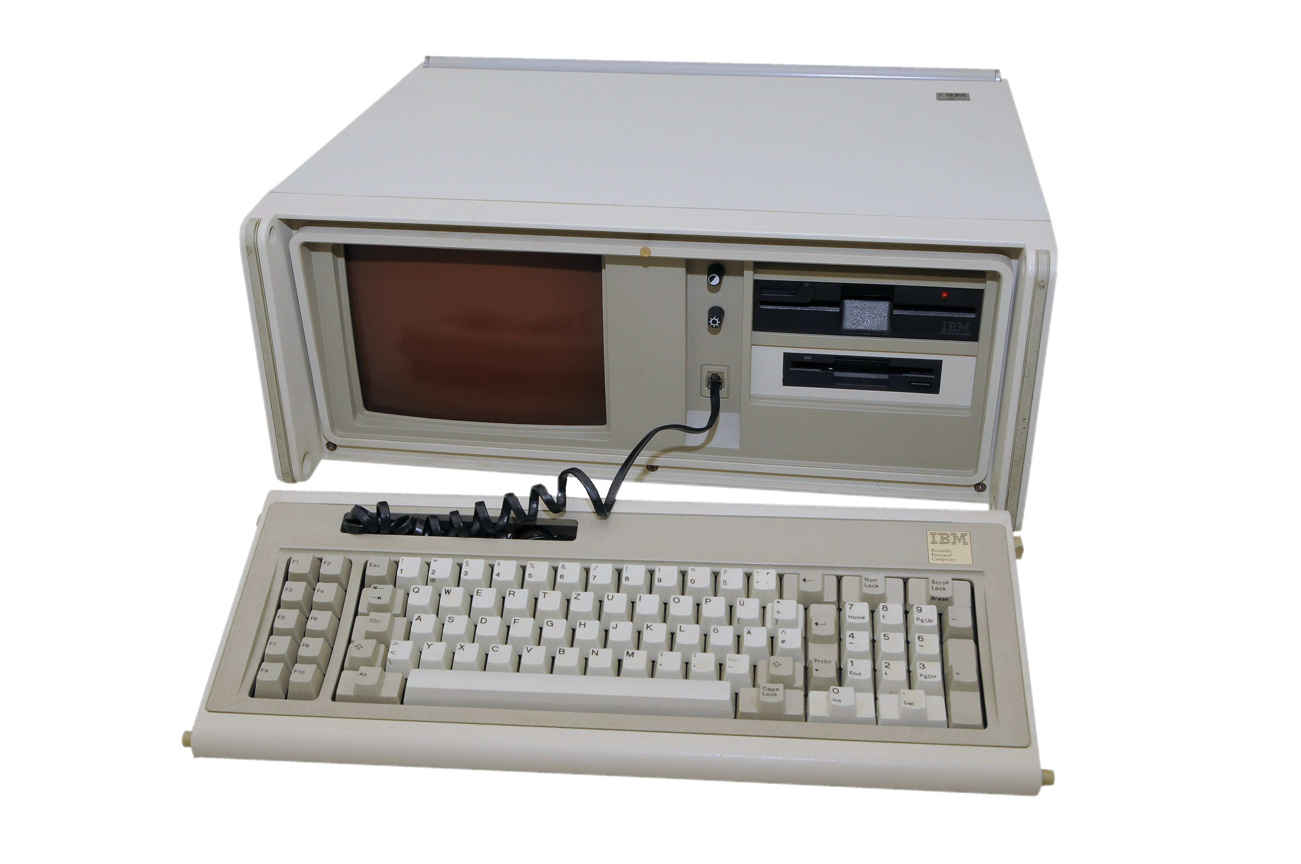 IBM portable PC, model 5155, 3 1/2 Inch disk drive was installed later. This PC was made in Greenock, Scotland, weight: 15 kilograms